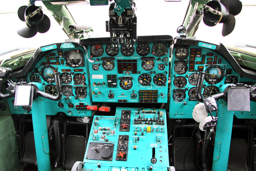 Tu-134UBL "Volga" cockpit